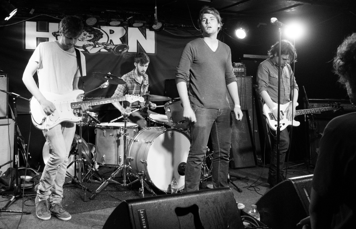 Girl Band supporting Metz at the Horn in 2014